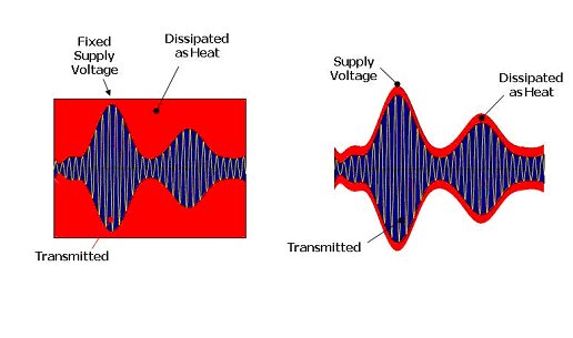 Diagram illustrating the power wasted in a radio transmitter without and with the use of Envelope Tracking technology